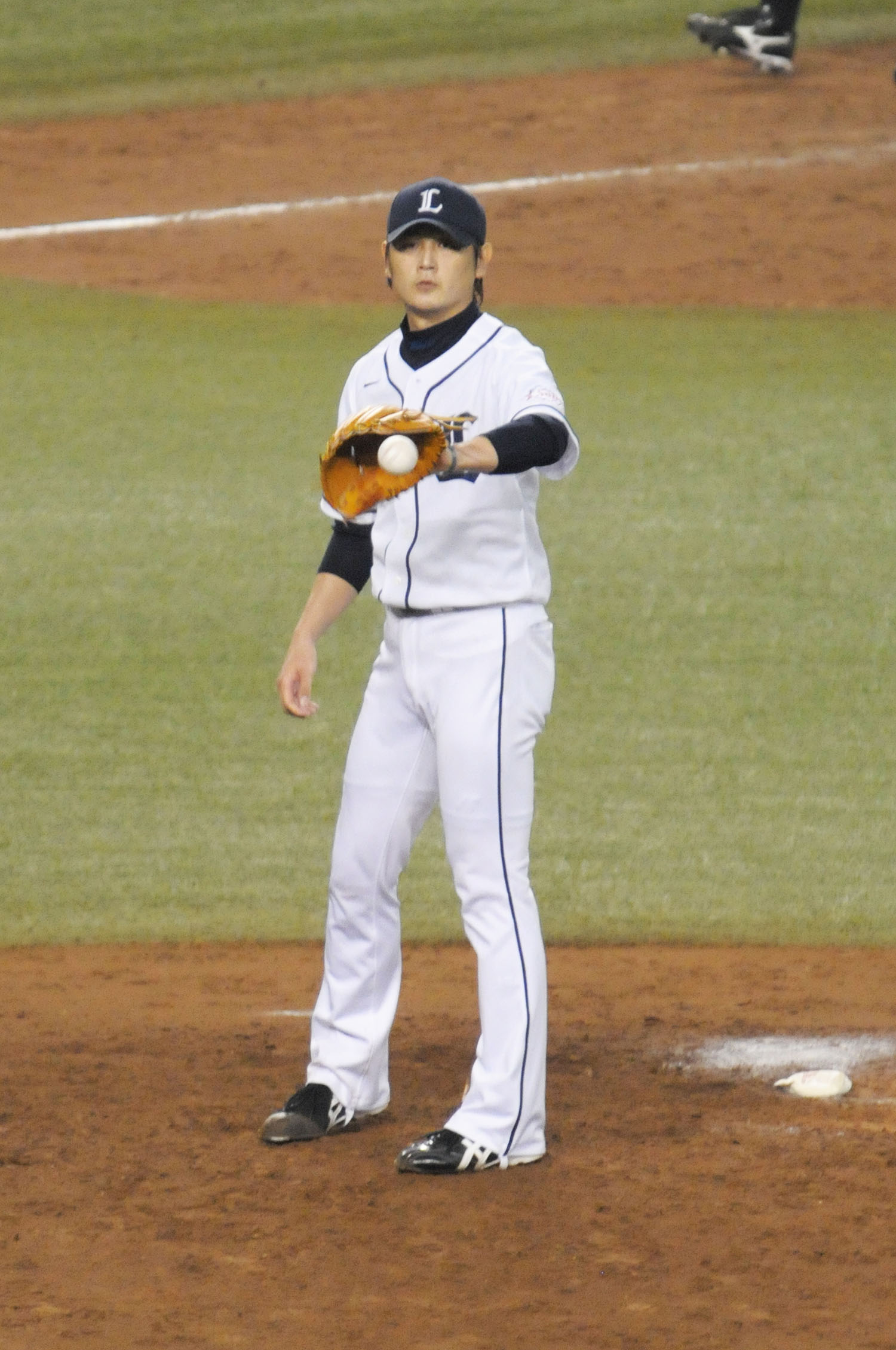 Hideaki Wakui, pitcher of the Saitama Seibu Lions, at Seibu Dome.